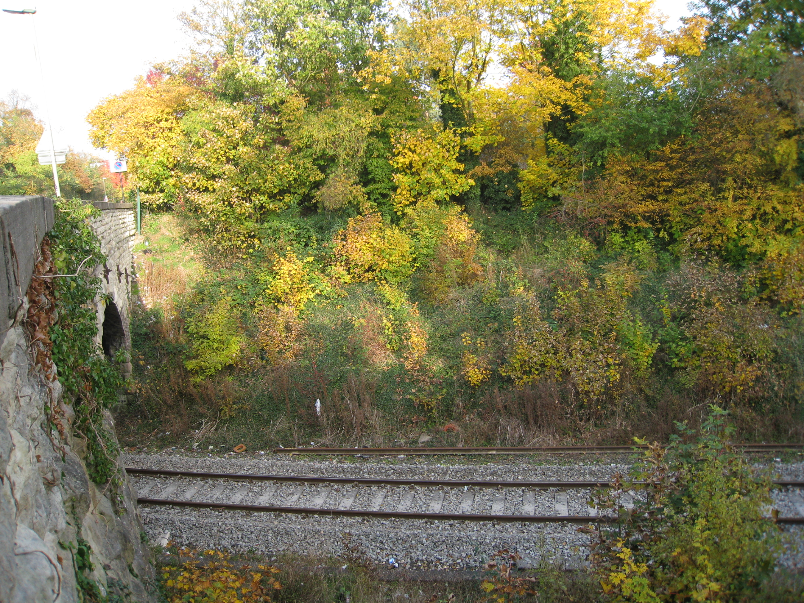 Site of the former Wolvercote Halt railway station, viewed from First Turn bridge looking east